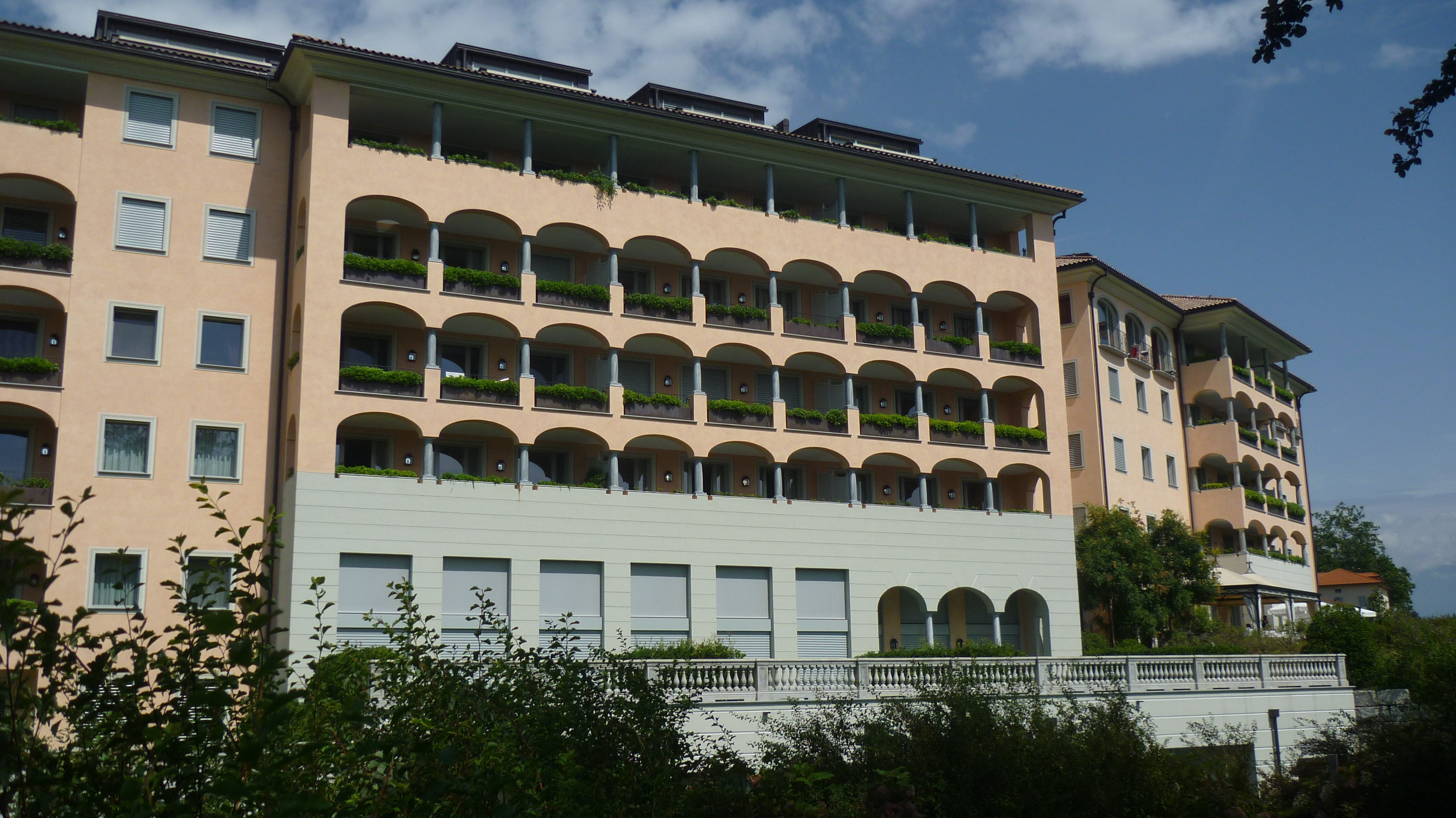 Resort Collina d'Oro in Agra (Canton Ticino, Switzerland)